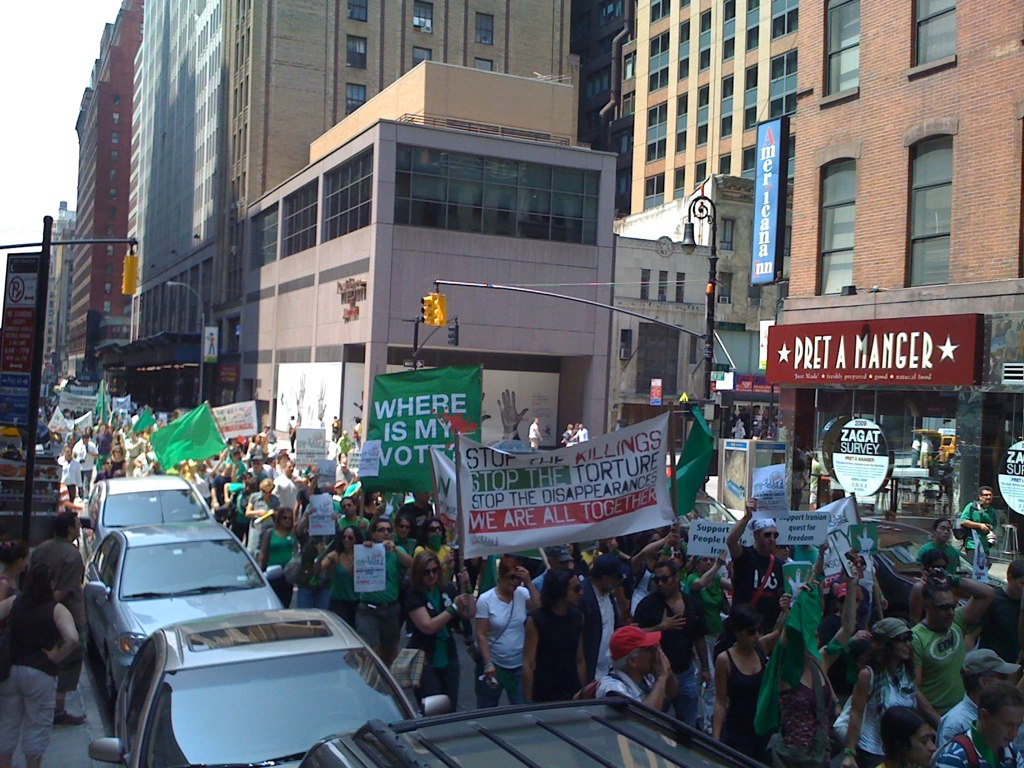 On July 25th 2009, one of the largest protests held outside Iran was organized by United For Iran and hosted in over 100 major cities around the globe. One of these cities was New York City. This image shows hundreds of Iranian Green Movement protesters matching in the streets of New York City.